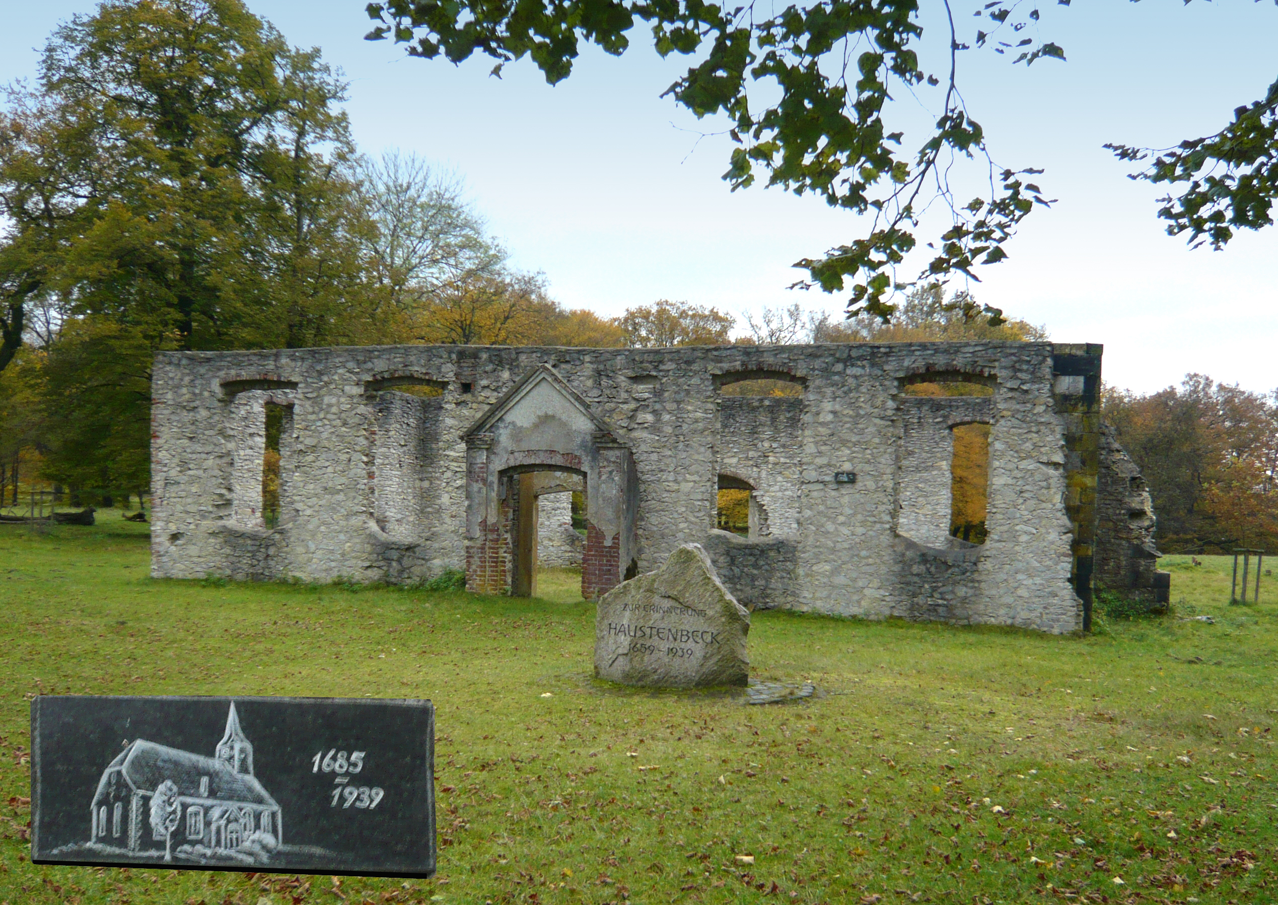 Ruins of the former church in Haustenbeck, Germany